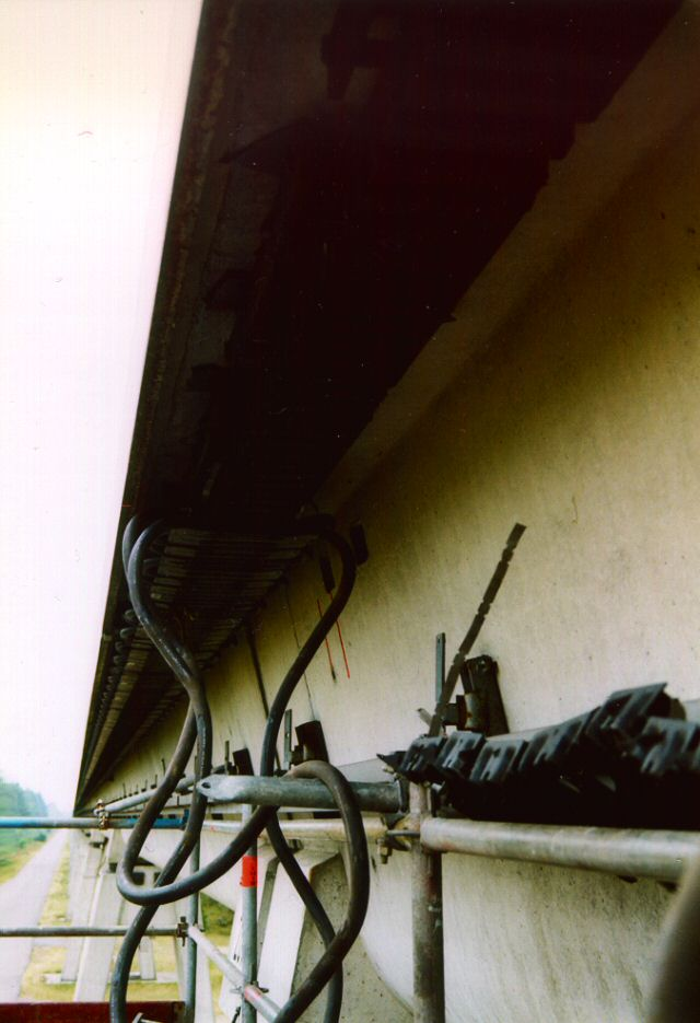 Close-up of longstator linear motor and cable work.